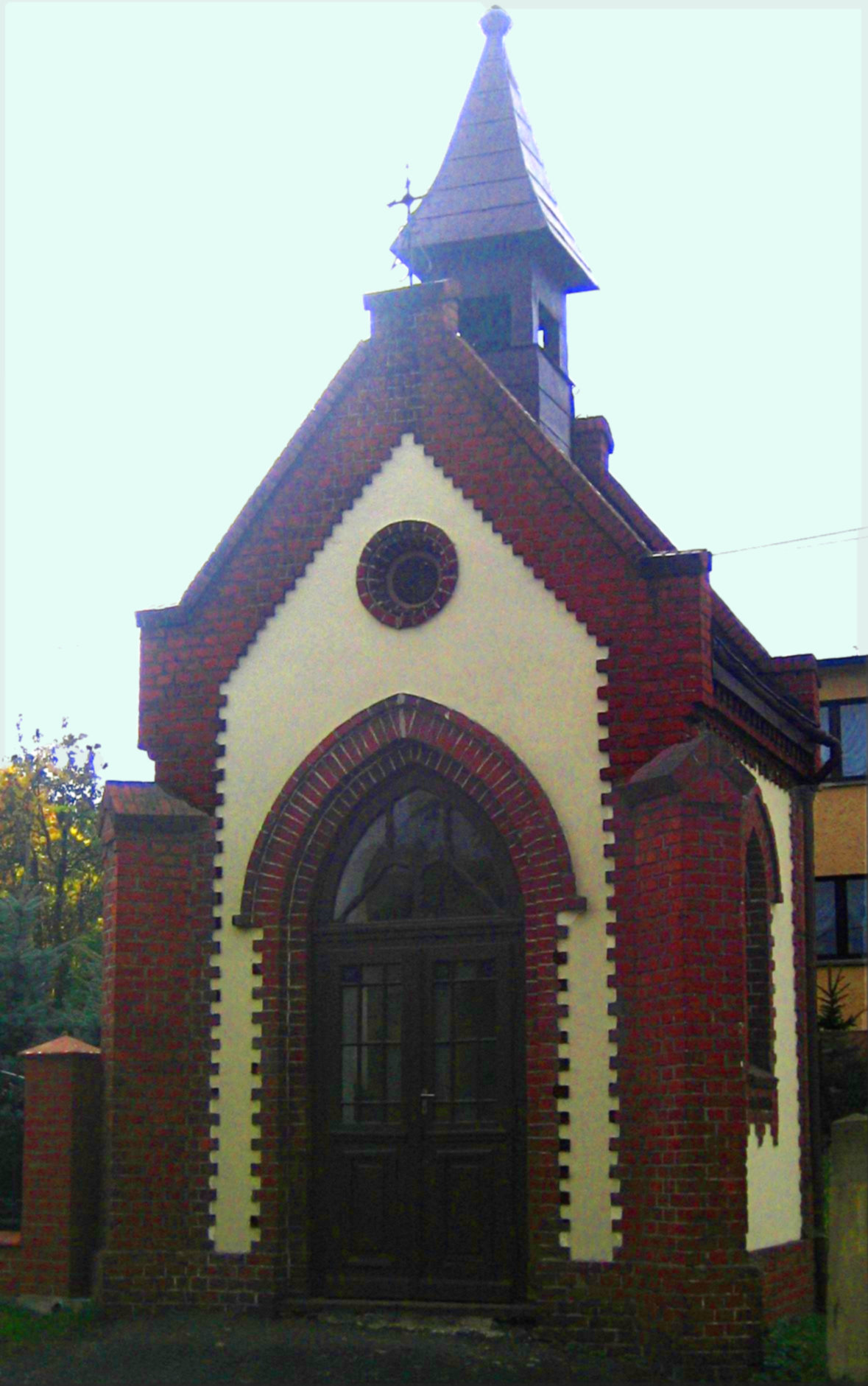 Chapel in Szonowice, Silesia, PL